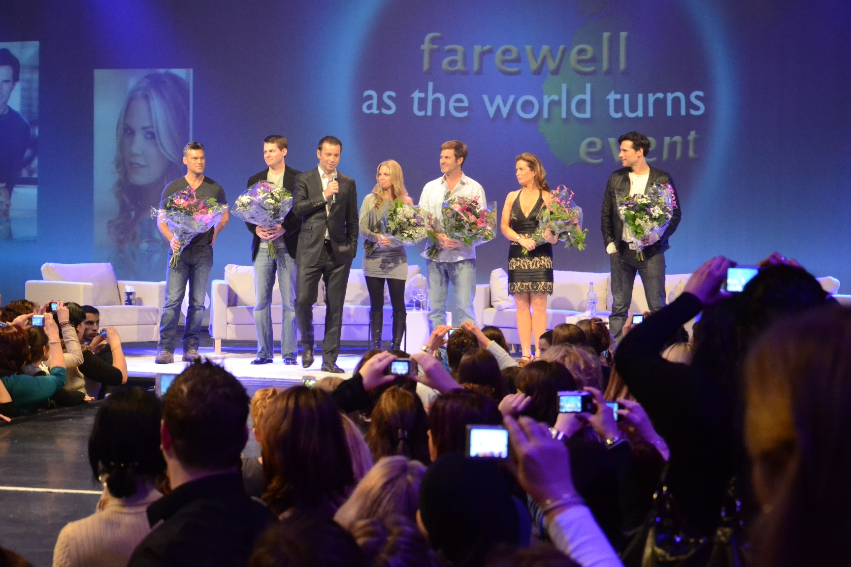 As The World Turns farewell event in Hilversum (The Netherlands)